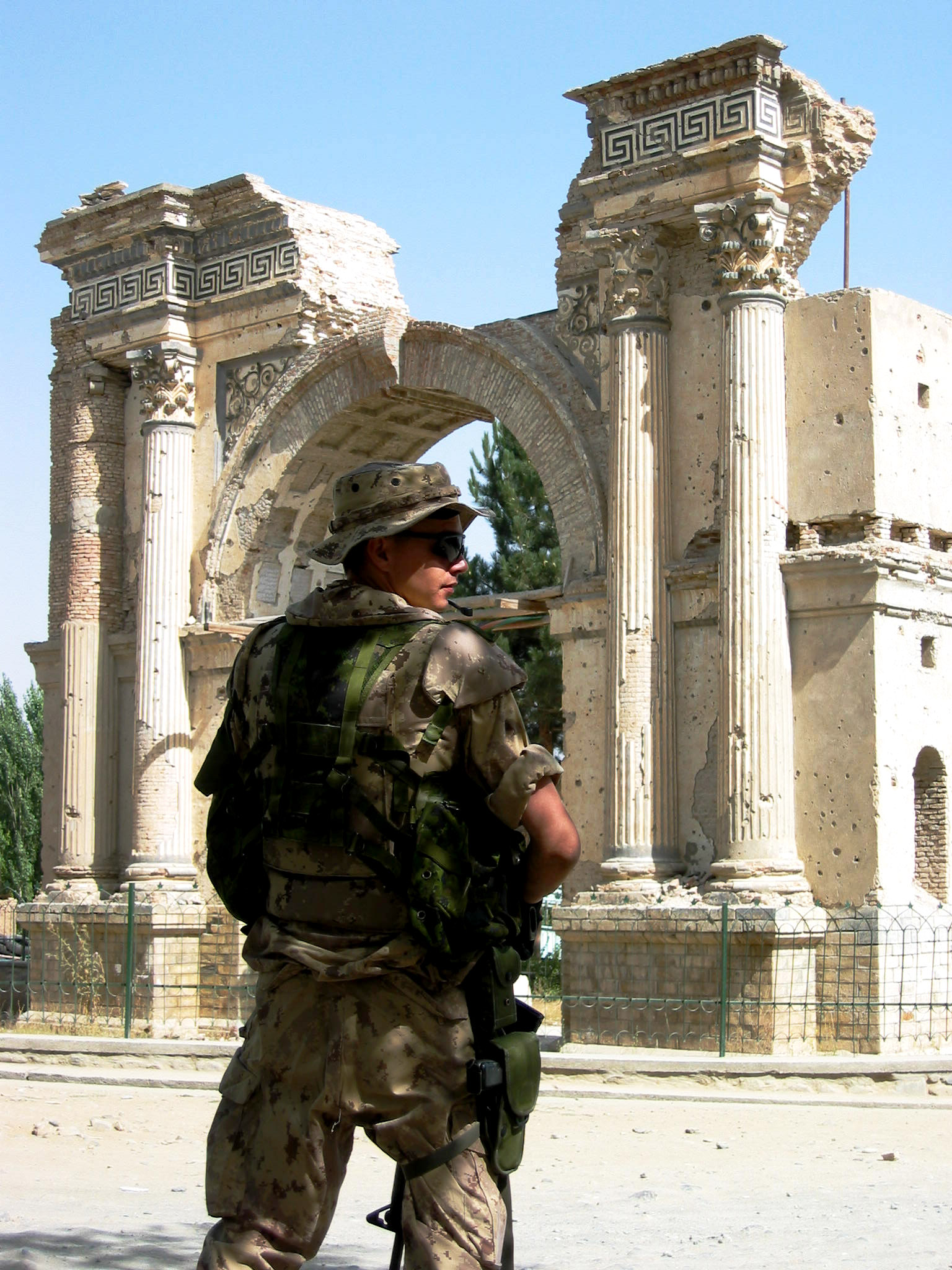 An ISAF soldier standing in front of the ruins of Paghman's arch.